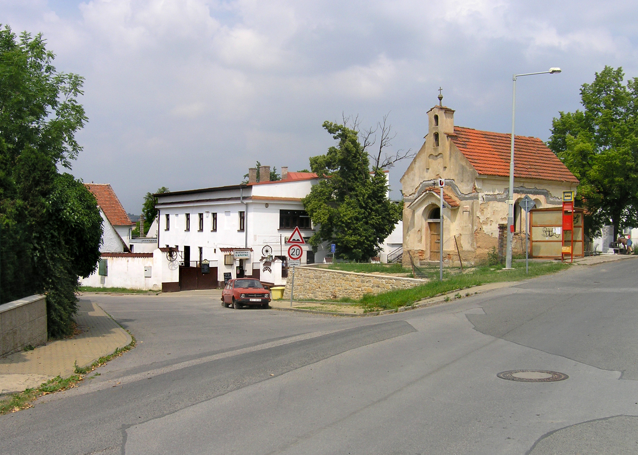 Small church at U Náhonu street and Pod Lípou square in Holyně, Prague